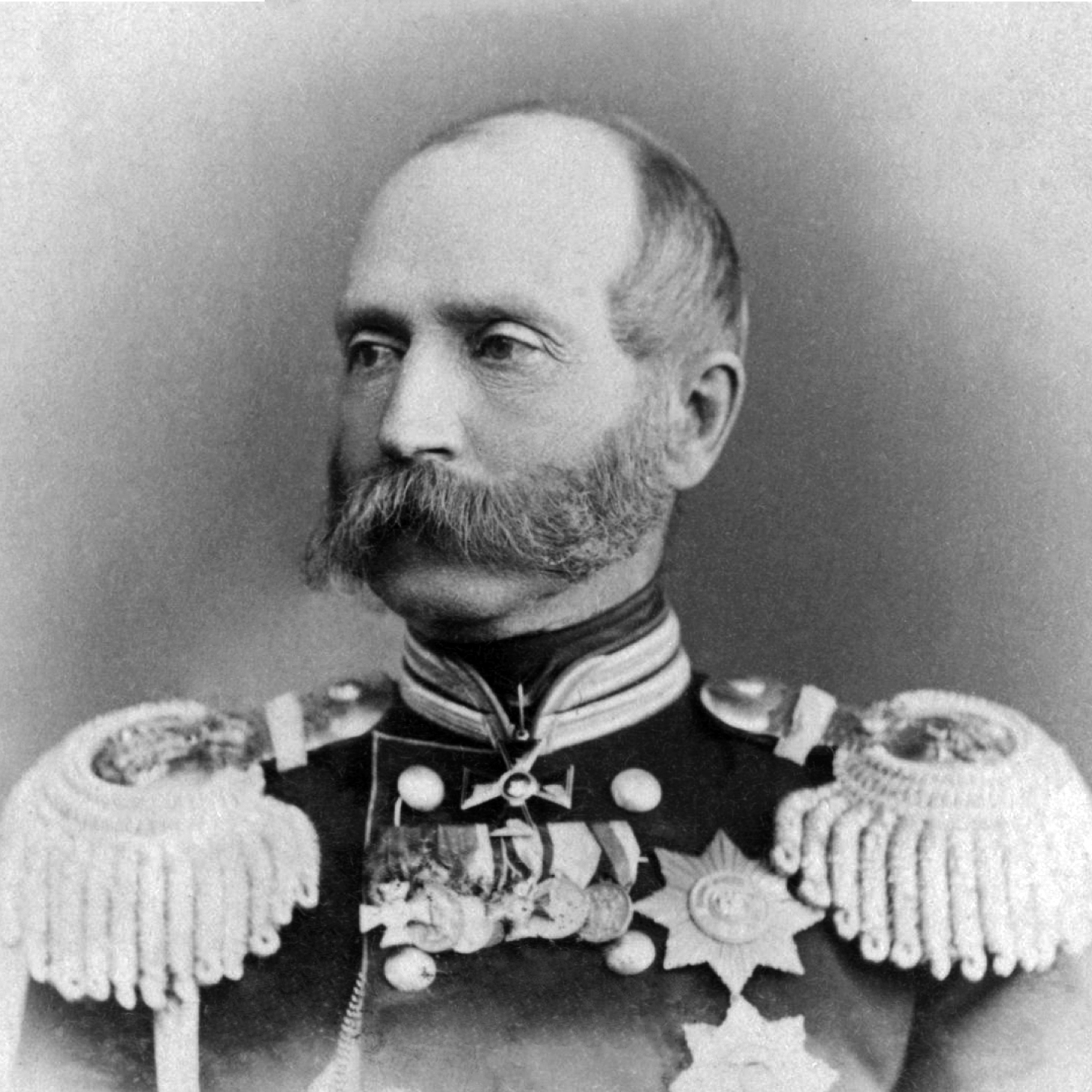 Fyodor Trepov, 1869